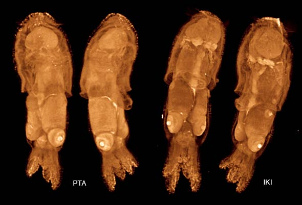 Squid hatchlings of Idiosepius pygmaeus, ca. 2 mm long. Fixed in gluteraldehyde, stored in cacodylate buffer, and stained with phosphotungstic acid (PTA) (left) and Lugol's iodine (IKI) (right). The IKI staining required less than one hour. Voxel size 4.0 μm (left) and 4.4 μm (right).